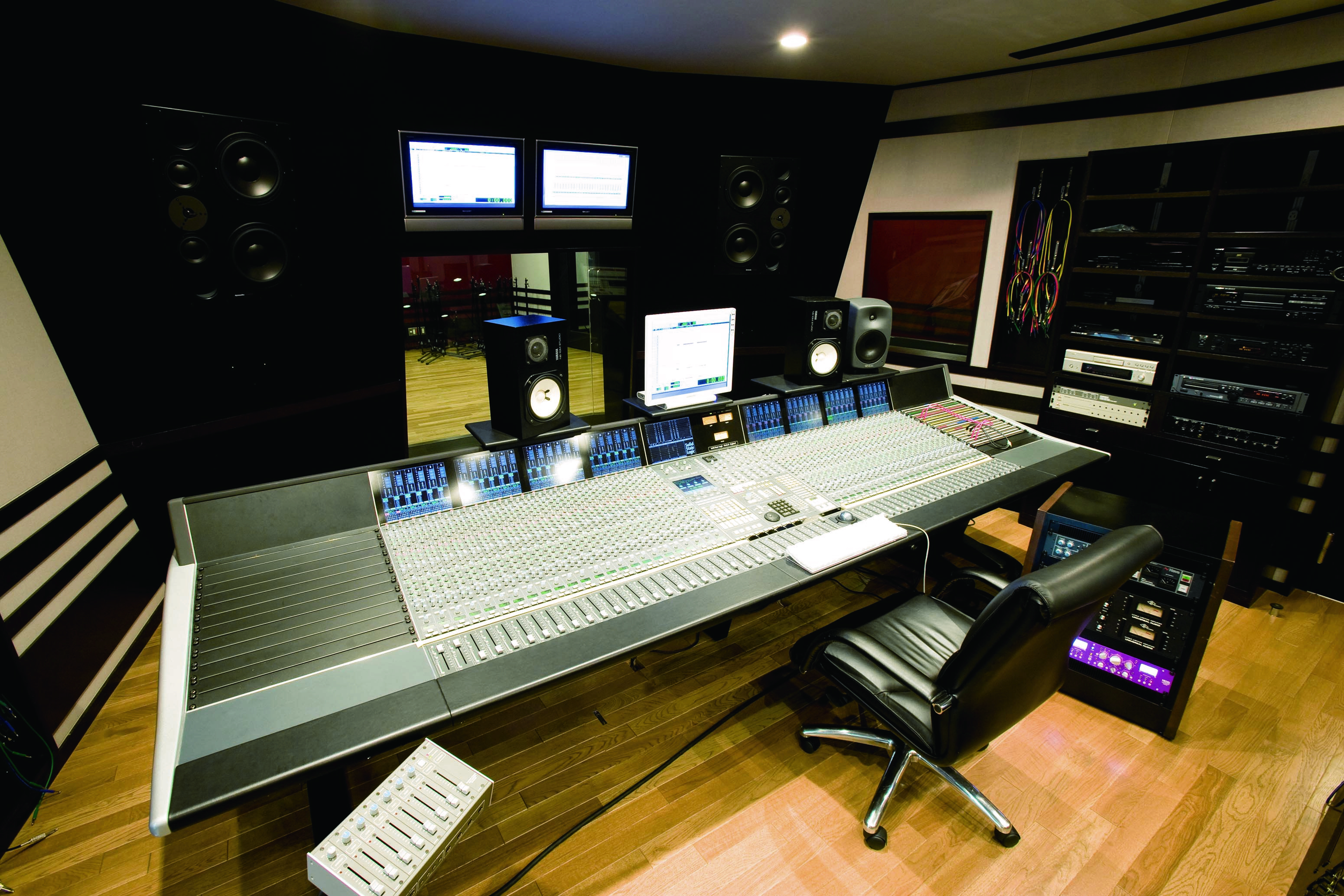 Tokyo School of Music recording studio SSL Duality Large-format analogue console with advanced DAW control